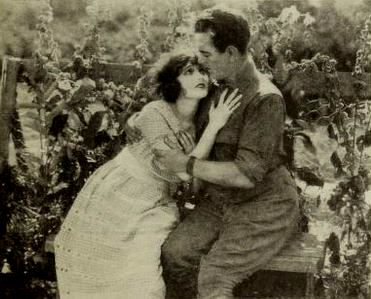 Still for the American film The Single Track (1921) with Corinne Griffith and Richard Travers, on page 39 of the January 1922 Photoplay.